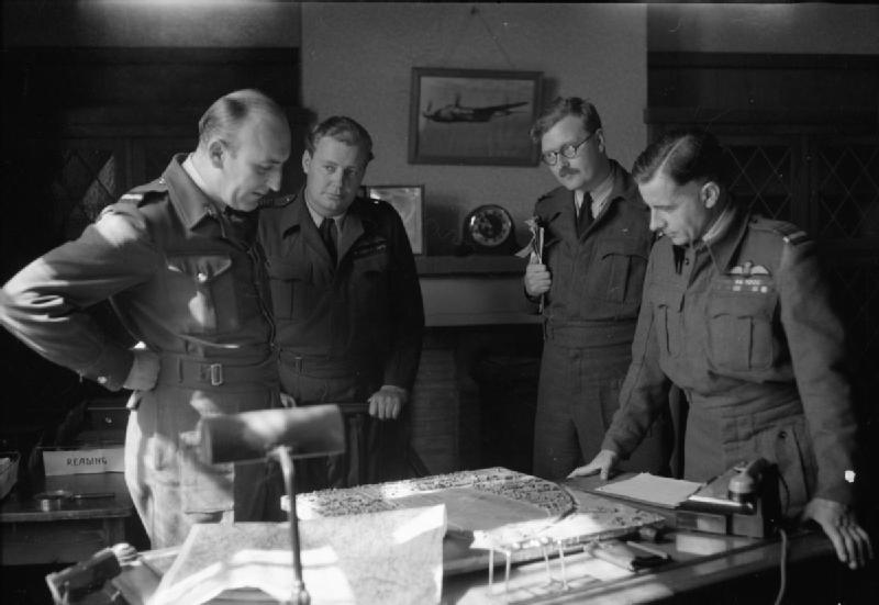 Royal Air Force- 2nd Tactical Air Force, 1943-1945. Air Vice-Marshal B E Embry, Air Officer Commanding No, 2 Group RAF, and his staff, study a scale model of a prospective target at Group Headquarters in Brussels. They are (left to right): Air Commodore D F W Atcherley, Senior Air Staff Officer; Group Captain P G Wykeham-Barnes, Group Captain Operations; Wing Commander H P Shallard, Group Intelligence Officer, and AVM Embry.